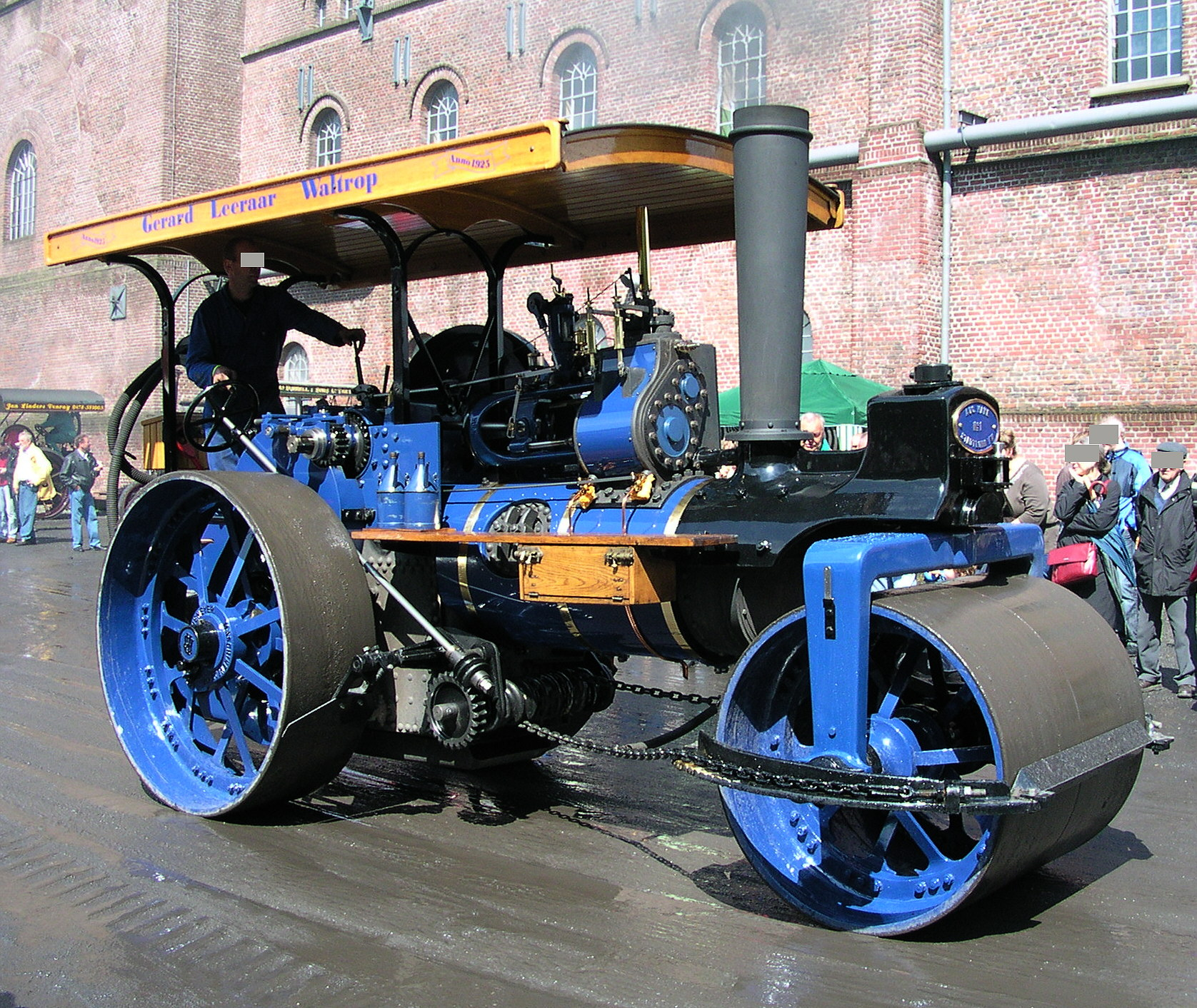 5th steam festival in Bochum, Germany 2007. Road roller from Ruthemeyer, Soest, Germany, built 1925.